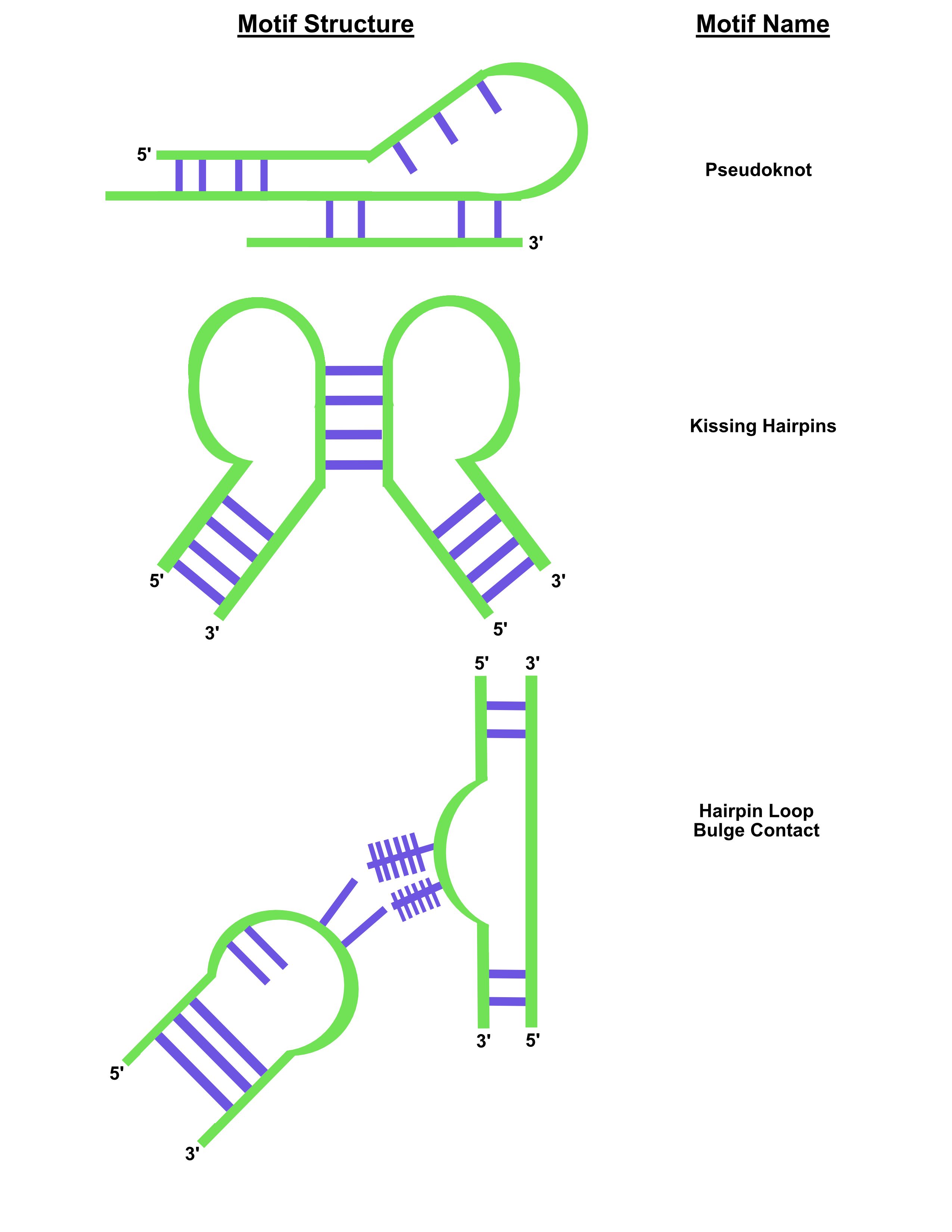 Picture of RNA Origami Motifs